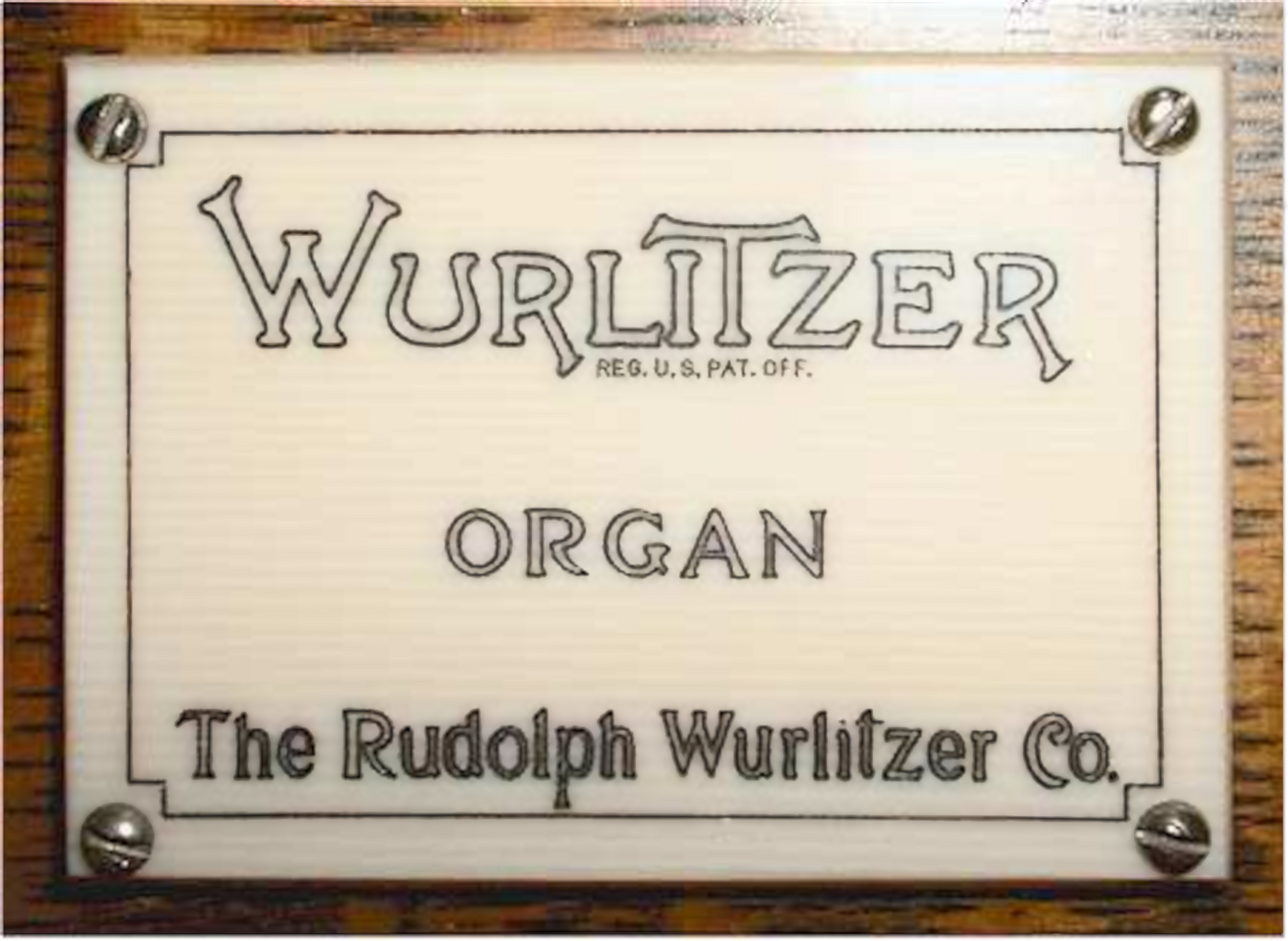 The label on a Wurlitzer church pipe organ at the 'Poker Church' in Cody, Wyoming.